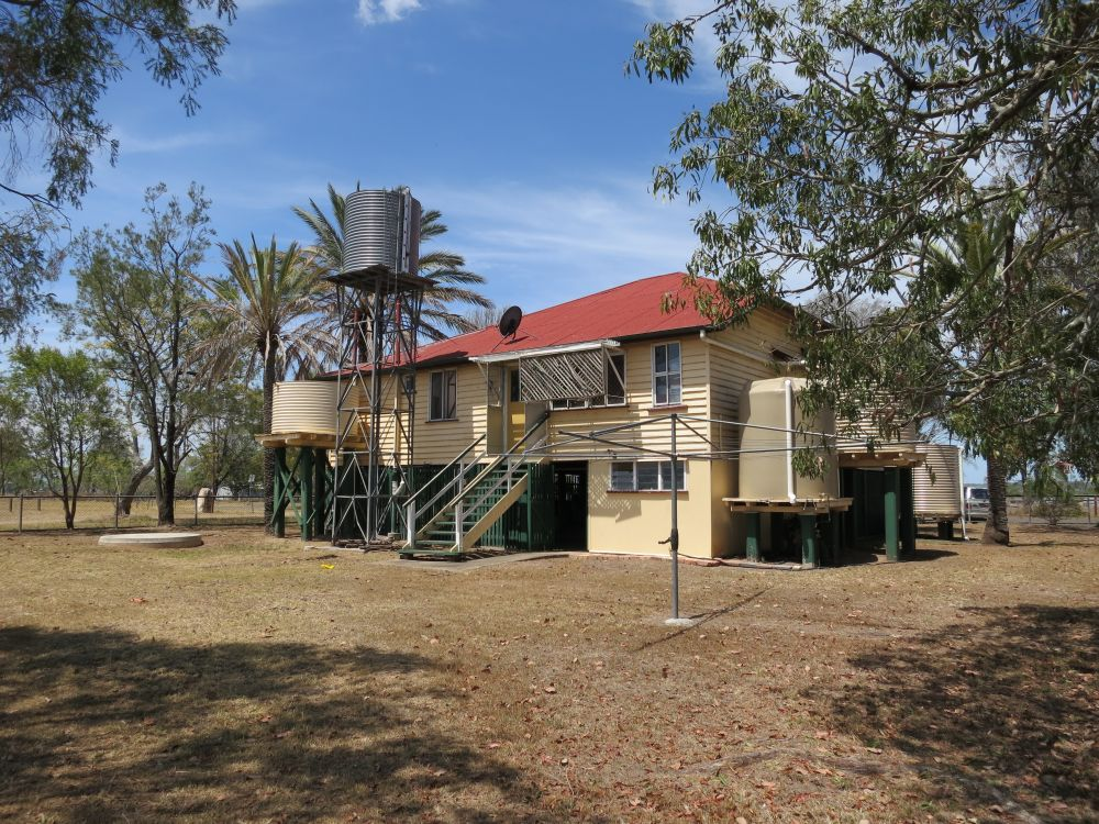 Mt Tarampa State School (2014) - Teacher's residence